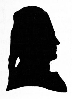 Johan Berghult, swedish actor. Picture published in Volume 1 (of 8) of Nils Personne’s history of Swedish theatre.